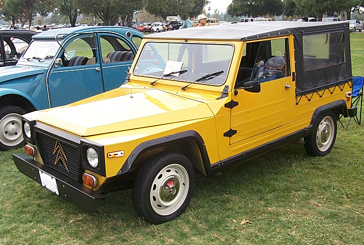 Namco Pony, a Greek-built, Citroën-based torpedo style quasi-off road automobile.